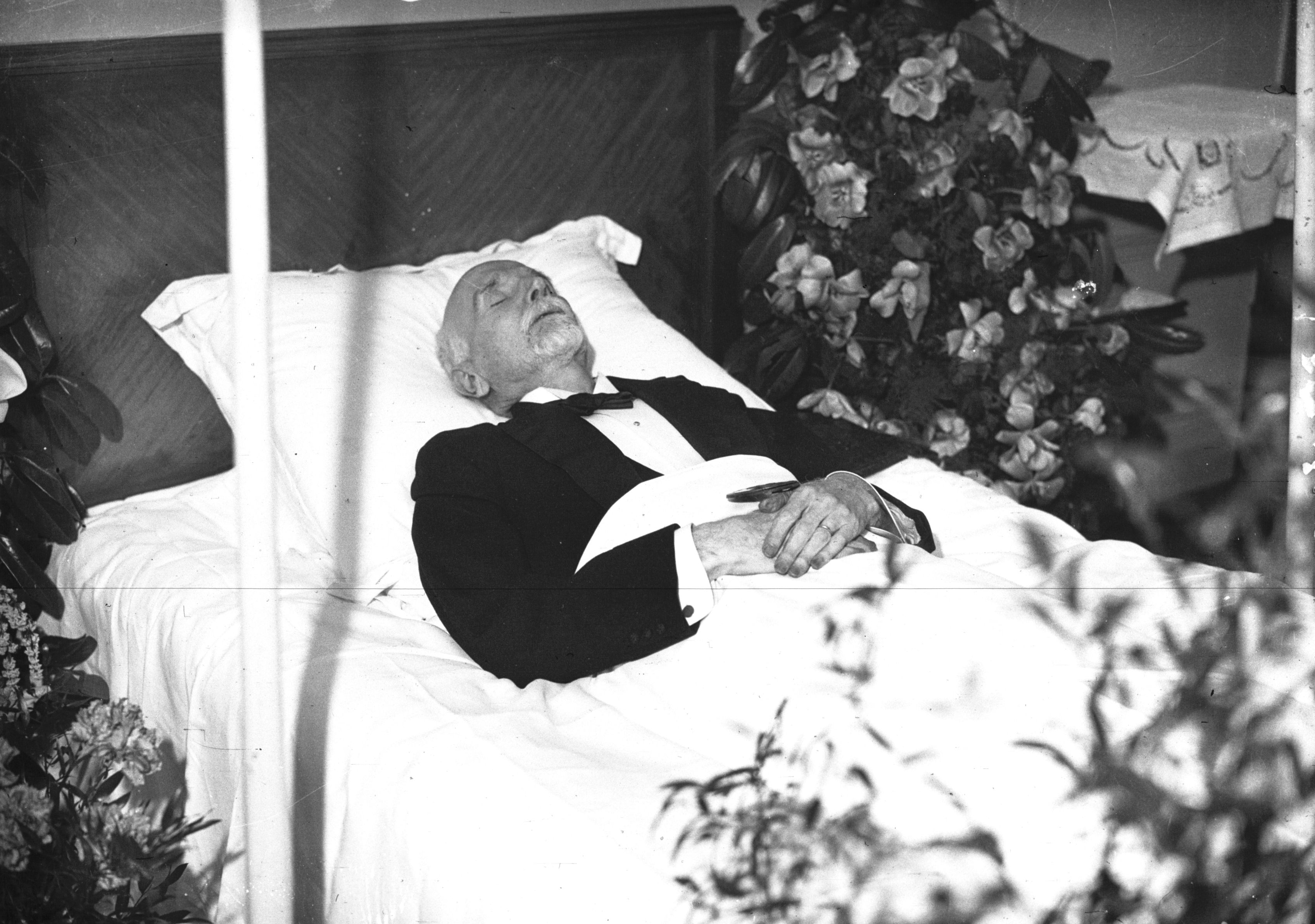 Greek statesman Eleftherios Venizelos on his deathbed, 1936